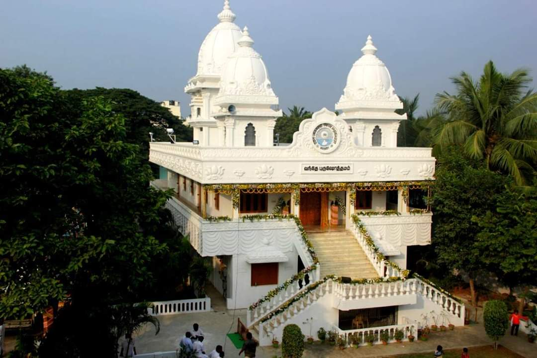 Satsang Vihar Chennai